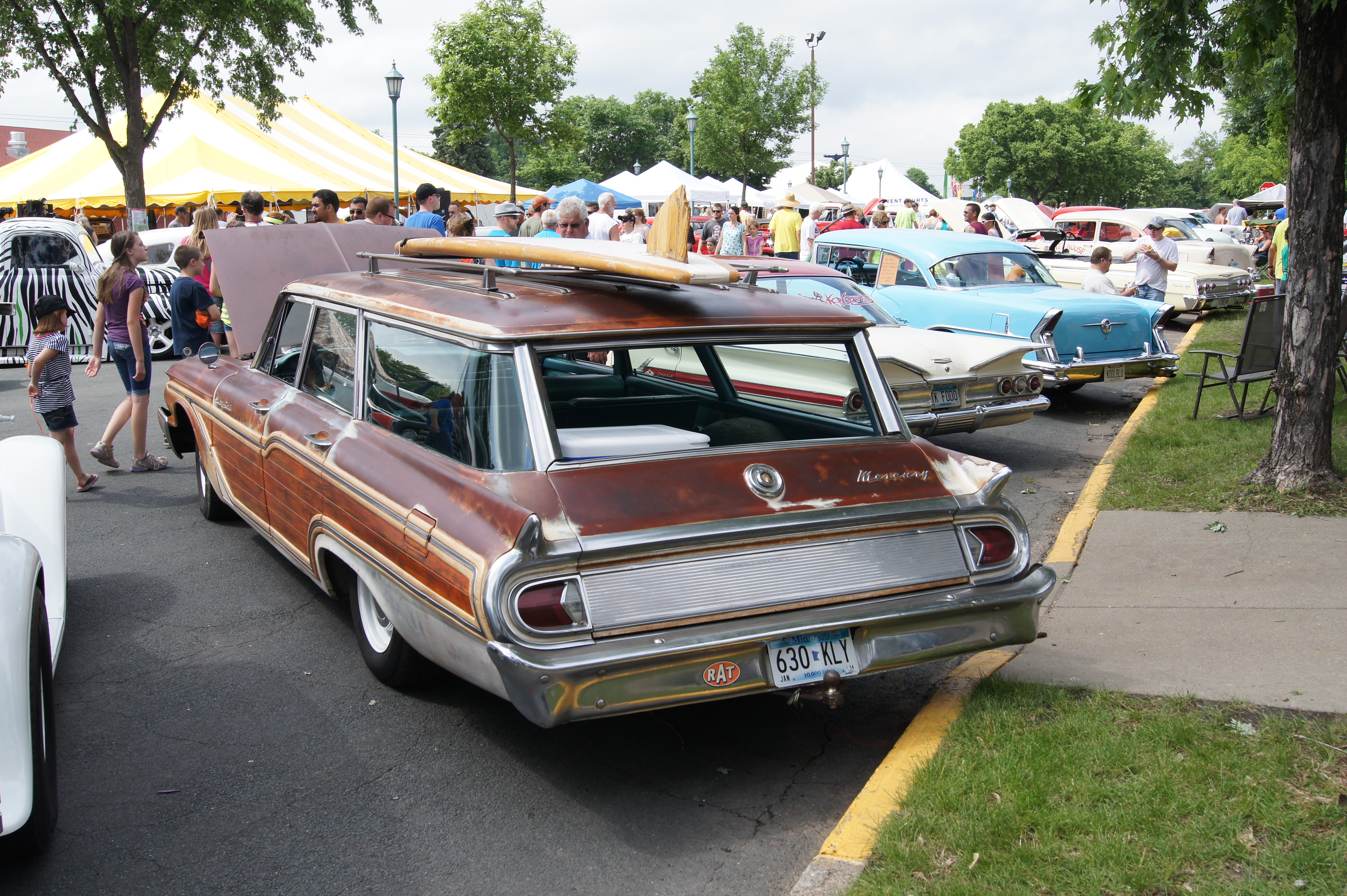 MSRA “BACK TO THE 50′s” 40th ANNIVERSARY June 21-23, 2013 State Fairgrounds St. Paul Minnesota More Car Pictures